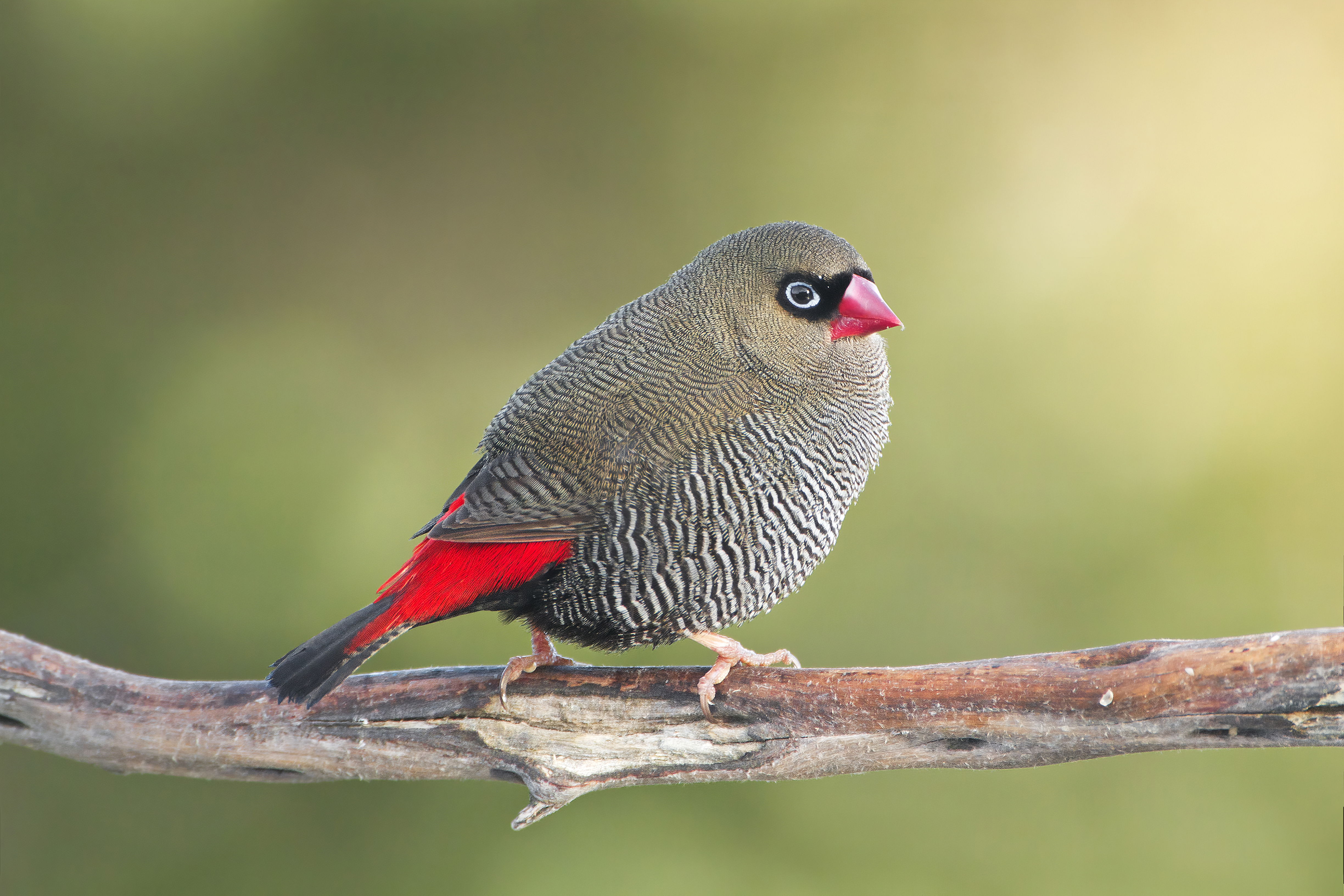 Beautiful Firetail (Stagonopleura bella) male, Melaleuca, Southwest Conservation Area, Tasmania, Australia